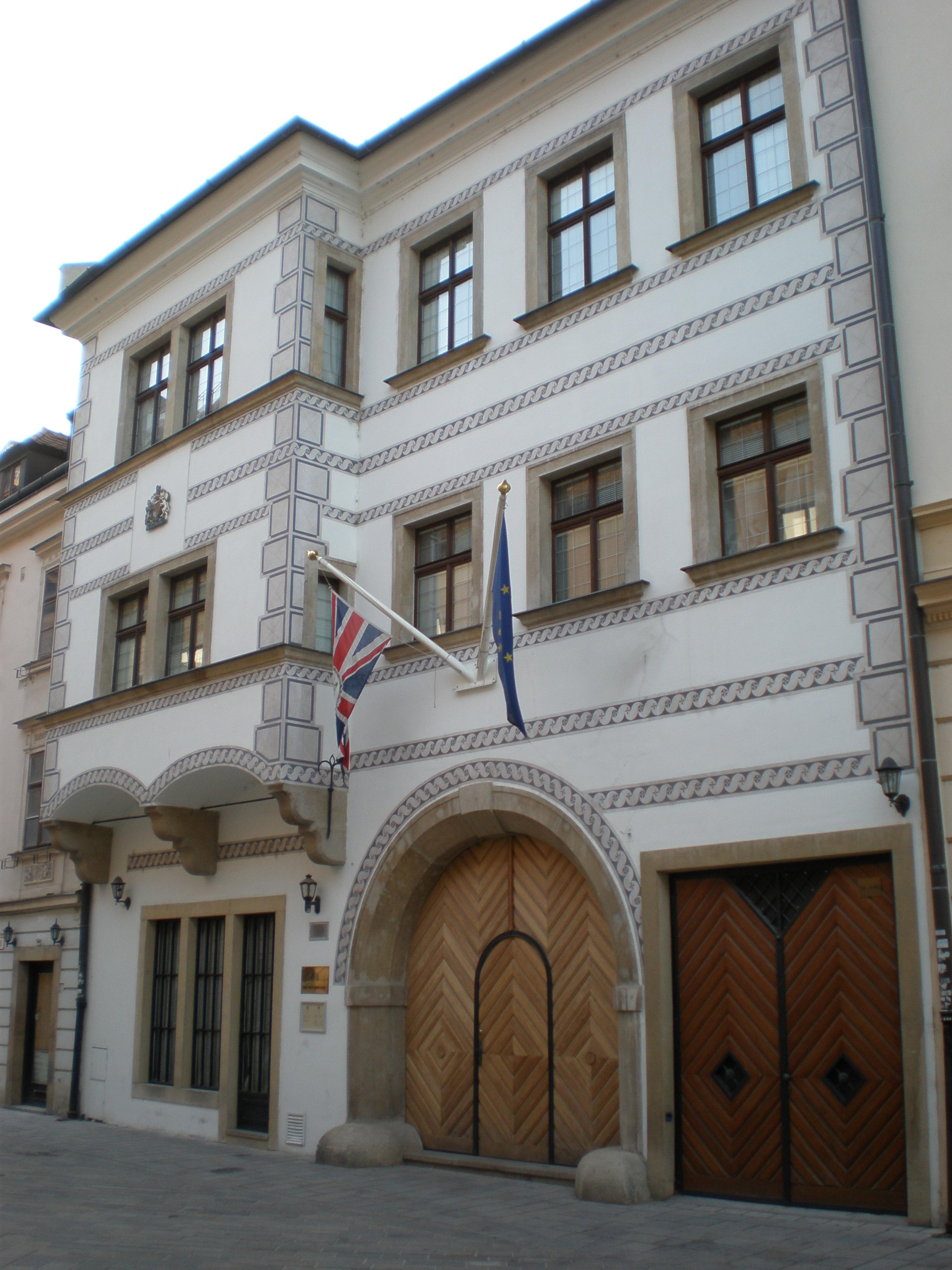 Embassy of the United Kingdom in Bratislava.